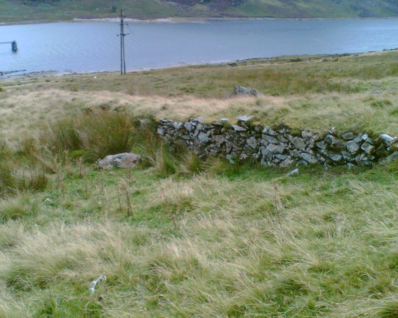 Part of the incline between Llyn Cowlyd dam and the quarry. Photo by me, released to the Public Domain.